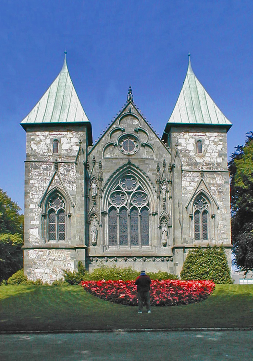 Edit of Image:Stavanger_domkyrkje.jpg. Corrected perspective, overexposure.